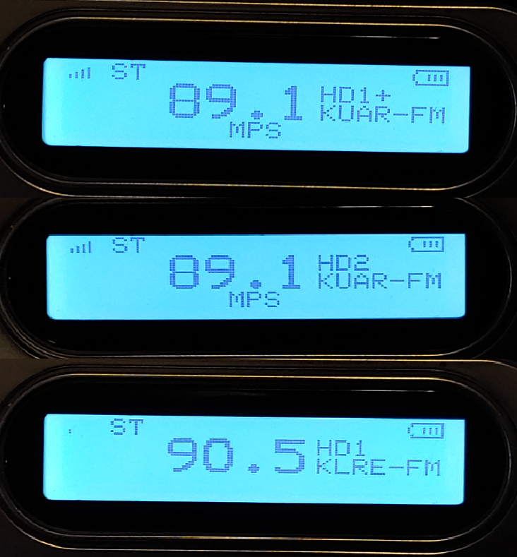 KUAR and KLRE broadcast in HD.